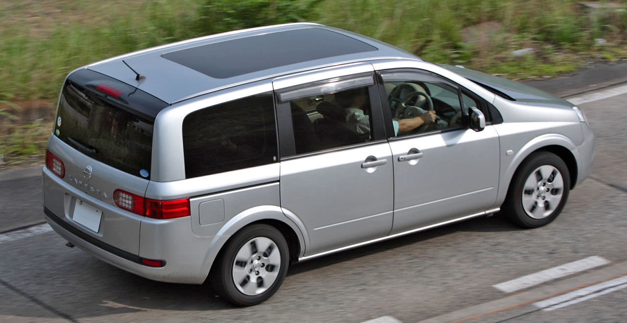 Nissan Lafesta 20S ( B30 )